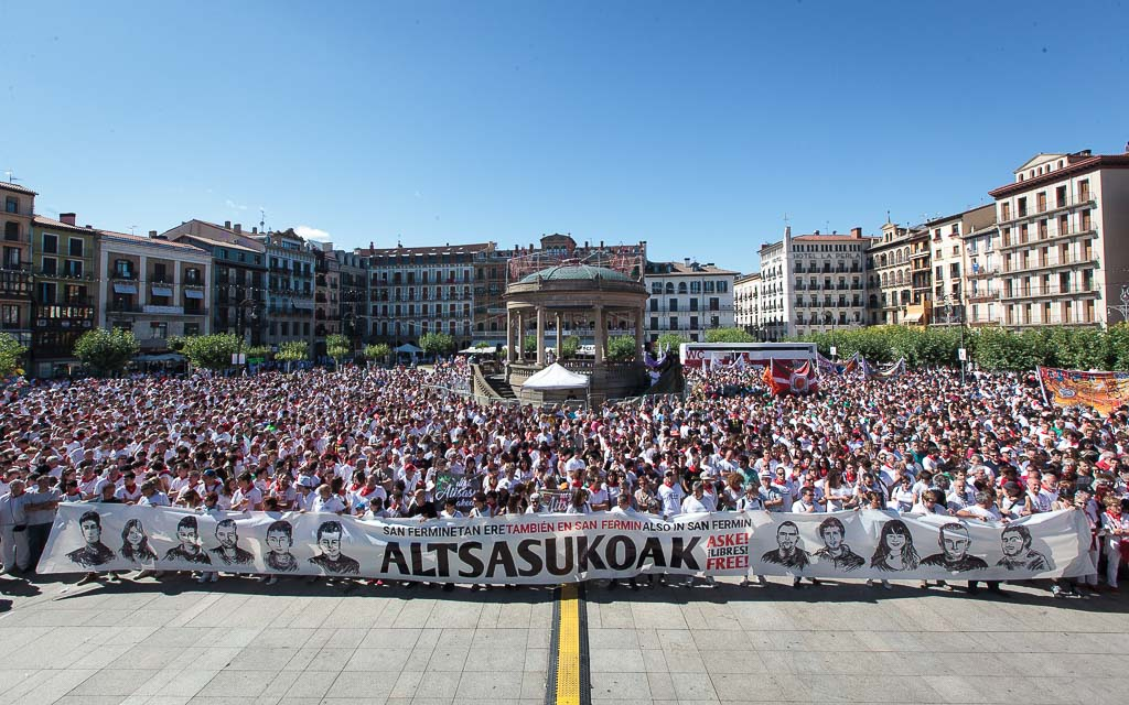 Demonstration in support of the Altsasu detainees held in Pamplona's San Fermines